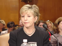 Photo of Karen Ignagni testimony in the United States Senate Committee on Health, Education, Labor, and Pensions Providing Quality Postsecondary Education: Access and Accountability panel.